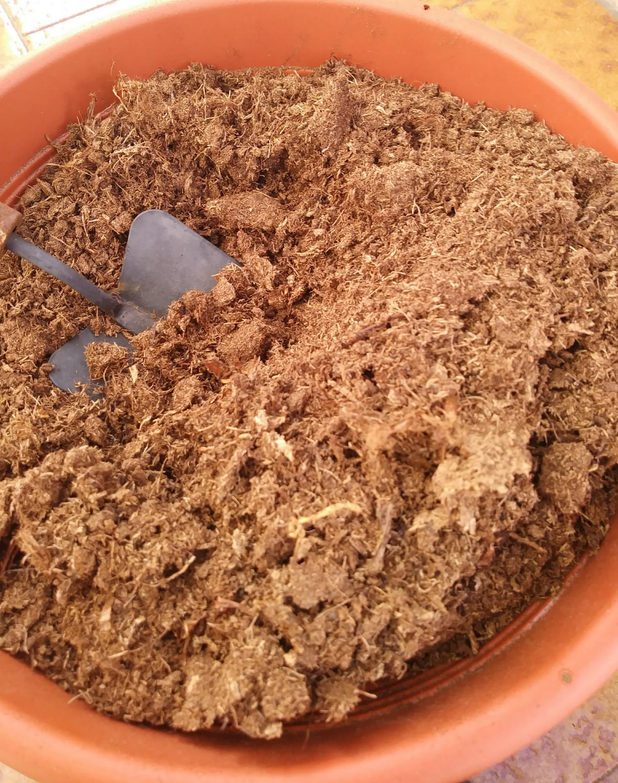 A pot that contains sphagnum peat.